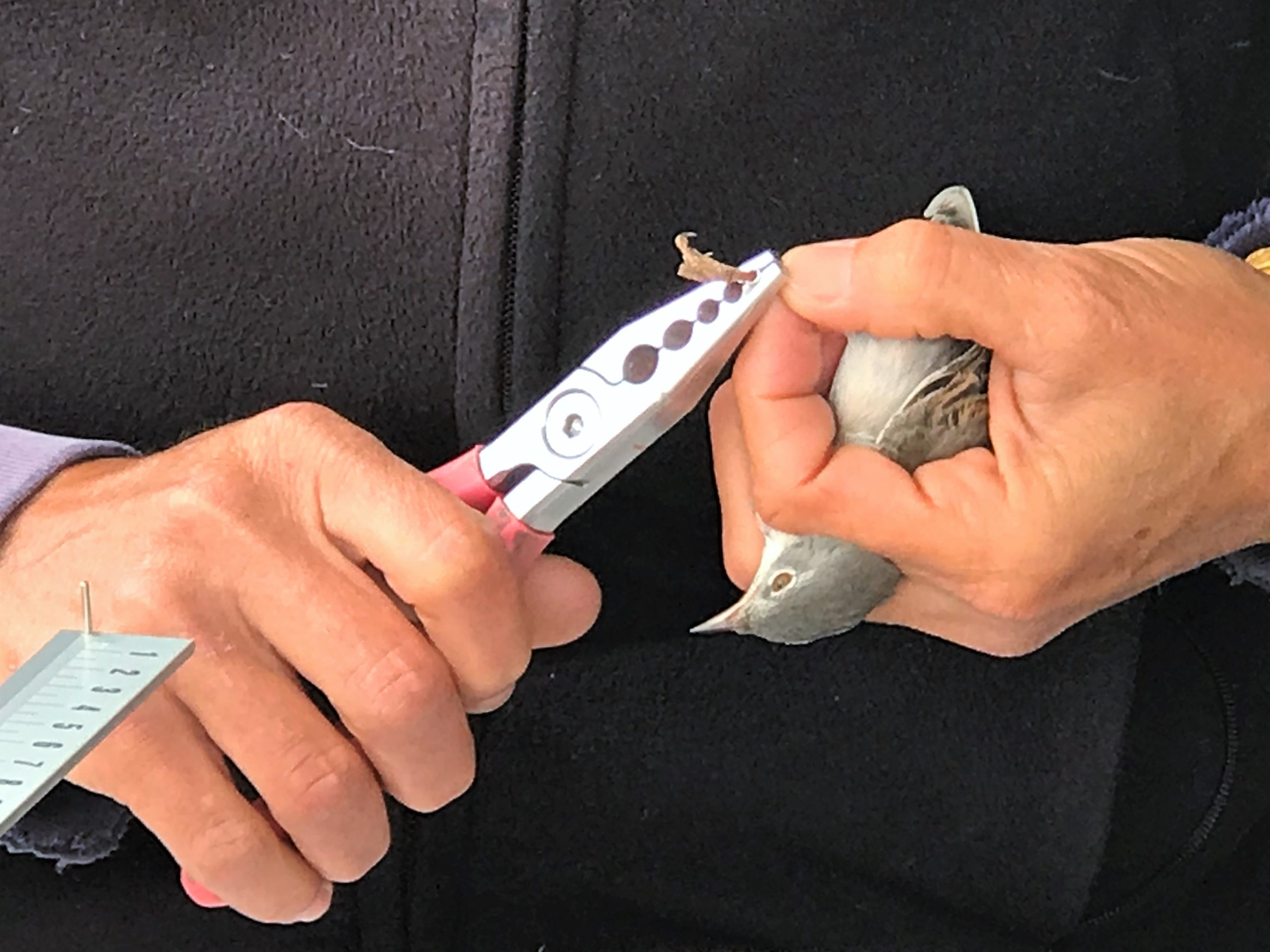 A Common Whitethroat during the ringing/banding process at the bird observatory on the Island of Ventotene.